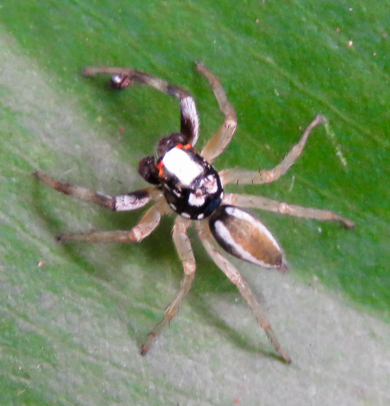 Chira distincta. Species of arachnid.